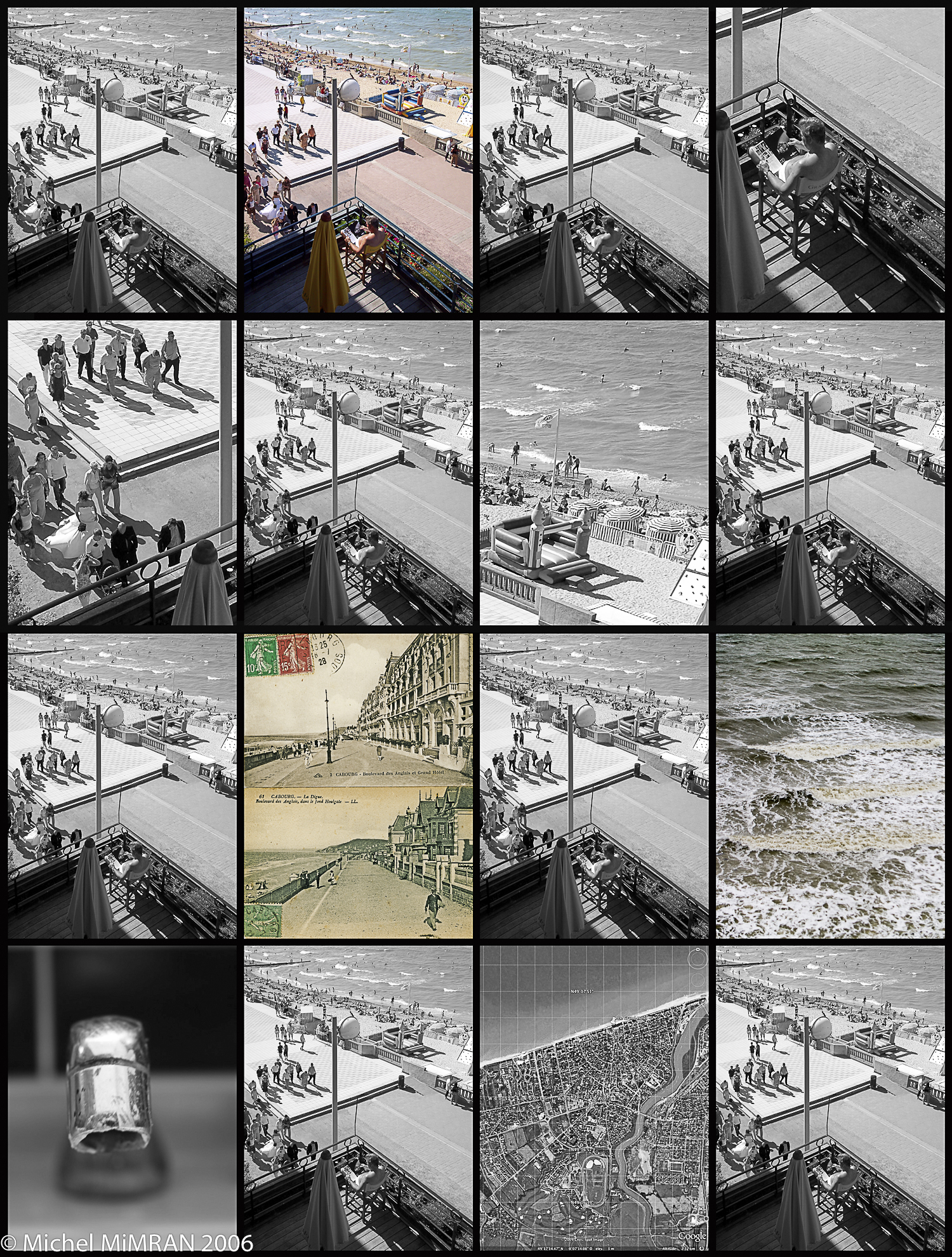 A picture of Cabourg, (Normandy) in France, taken from the balcony of the Grand Hotel, where writer Marcel Proust used to stay.